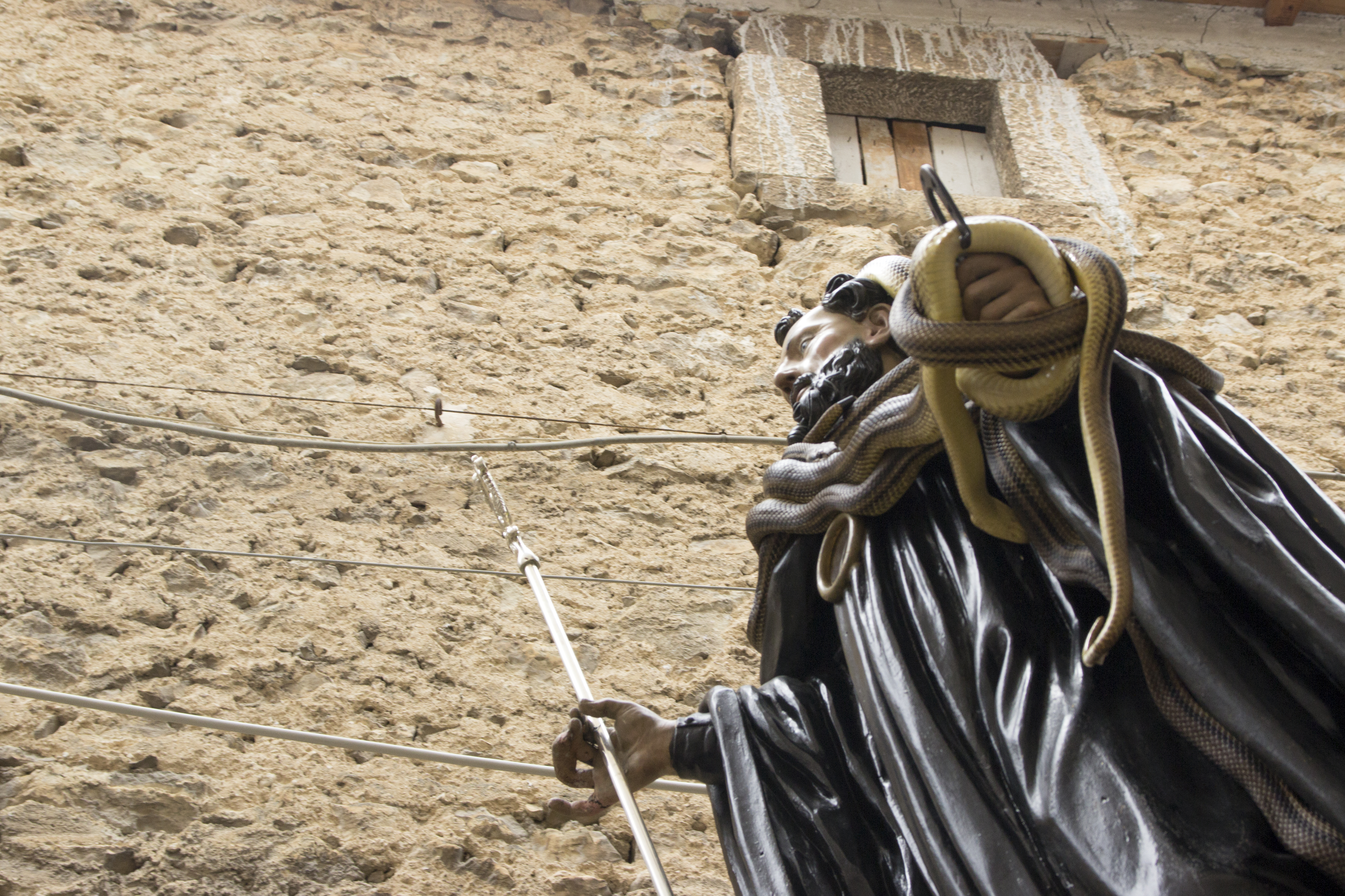 Every 1st May in Cocullo (Abruzzi region) in Italy a celebration of snakes is held. It derives from an ancient paegan tradition of Marsi people living in the area.